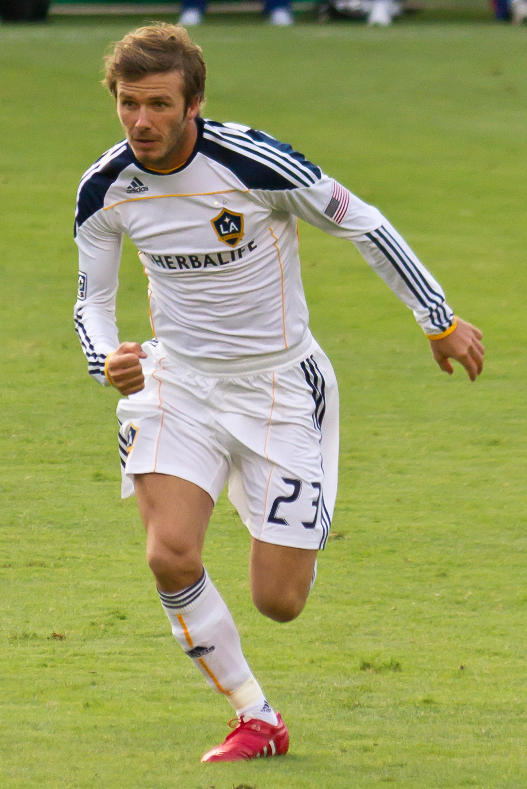 David Beckham plays a competitive match for Los Angeles Galaxy.